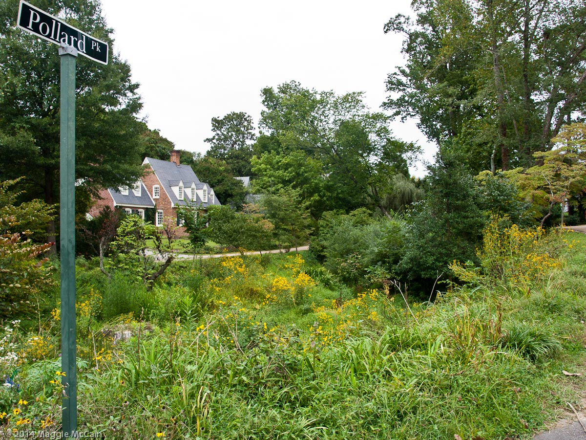 Pollard Park neighborhood from intersection of Pollard and Griffin, (Chandler Court and Pollard Park Historic District, Roughly bounded by Jamestown Rd., Griffin Ave., Pollard Park, and College of William and Mary Maintenance Yard)